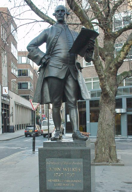 photo by lonpicman